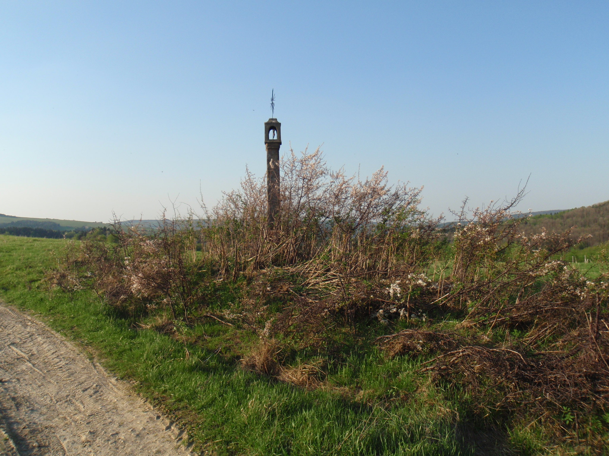 Wayside shrine at Szklarska pass in Beskid Niski